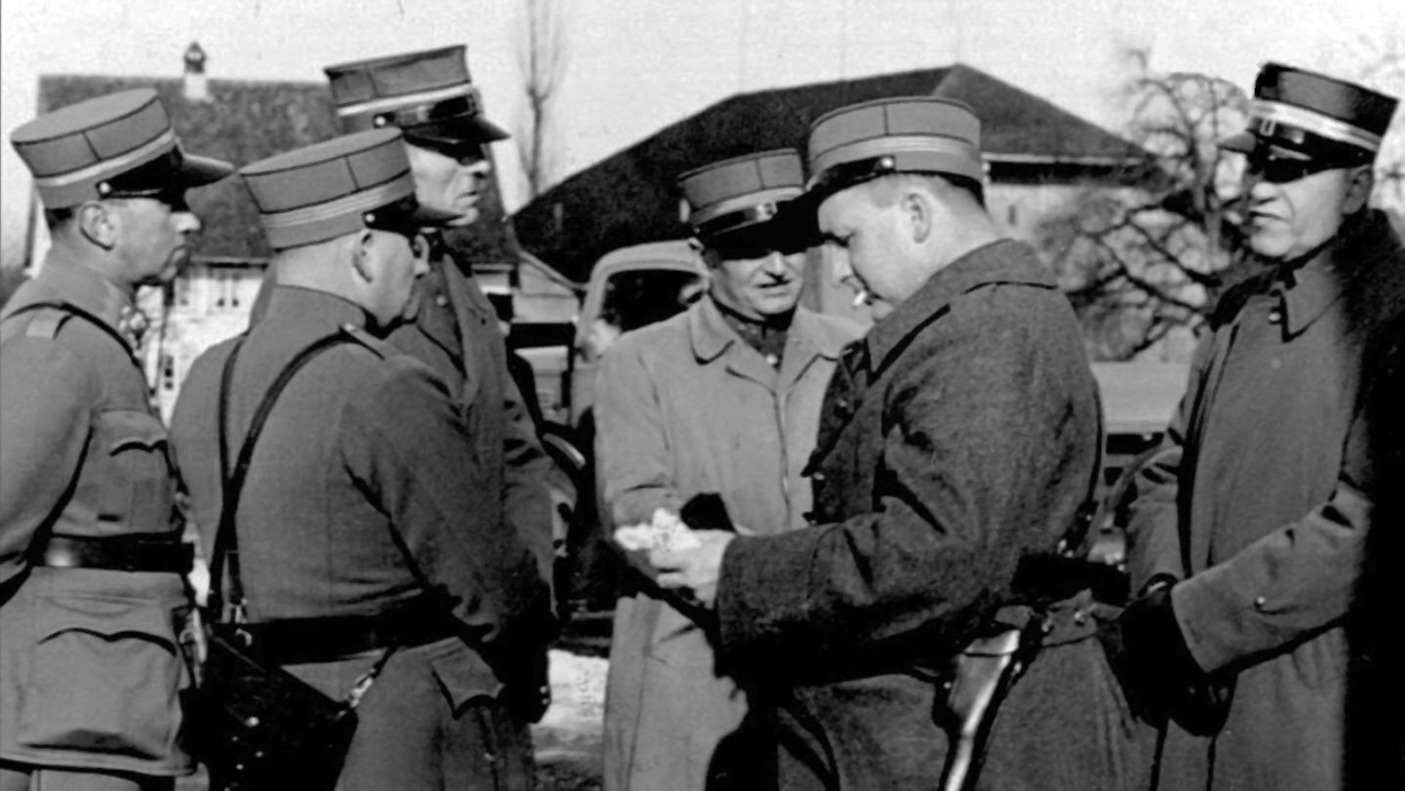 Wauwilermoos internment camp, Béguin and Swiss Army officers probably in 1944, Egolzwil-Wauwil, Canton of Luzern.